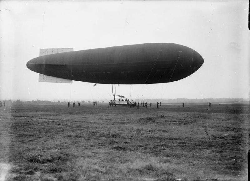 Aviation in Britain Before the First World War The army airship Delta on the ground, note the Royal Ensign hanging clearly from the underside of the gasbag.